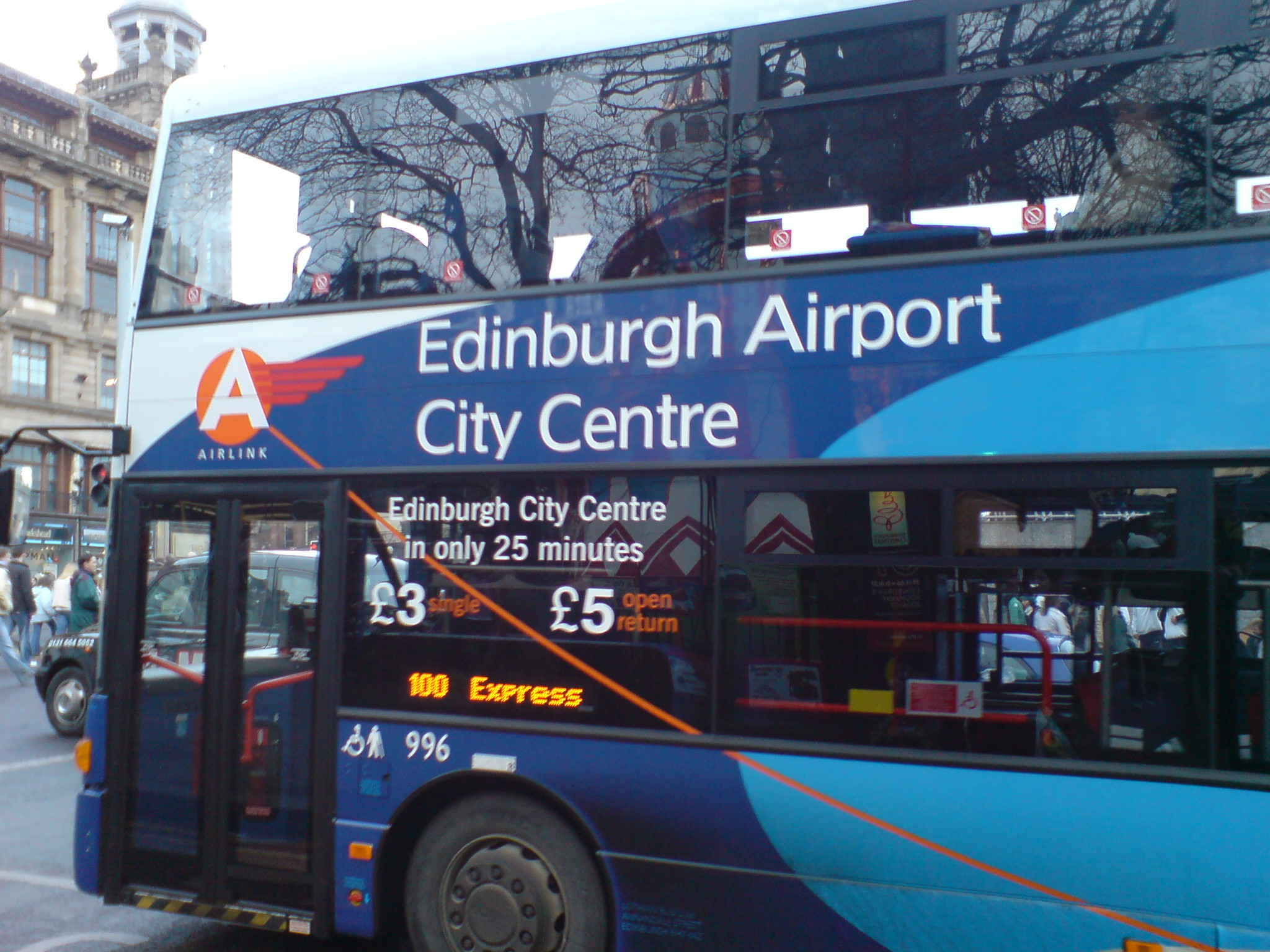 Lothian Buses' 996 (SK06 AHG), a double-deck Scania OmniCity on the Airlink service in Edinburgh.